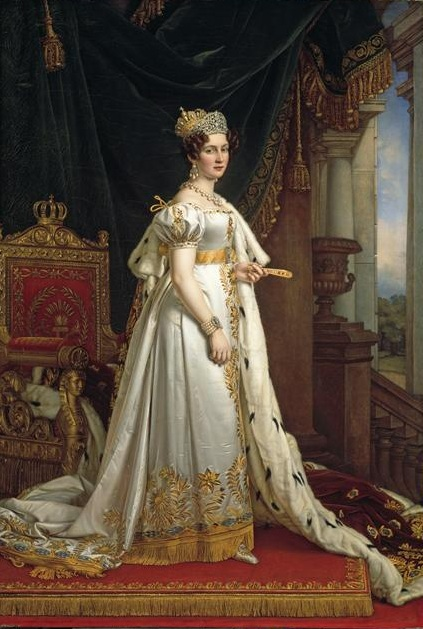 Therese of Saxe-Hildburghausen (1792-1854), Queen of Bavaria